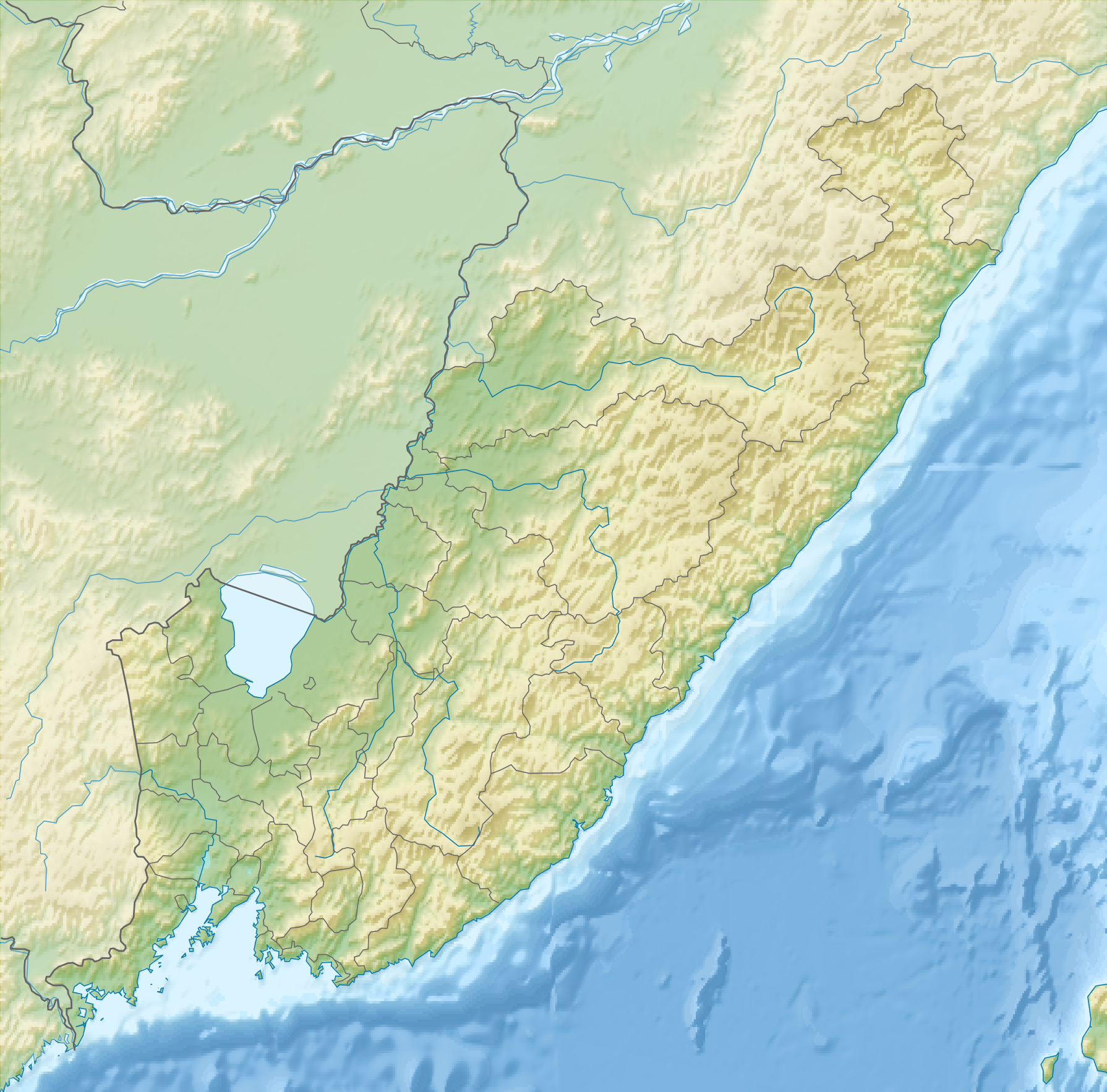 Primorsky Krai relief location map Equirectangular projection, N/S stretching 141 %. True scale parallel: 45°00' N. Geographic limits of the map: N: 49.0° N S: 42.0° N W: 130.0° E E: 140.0° E